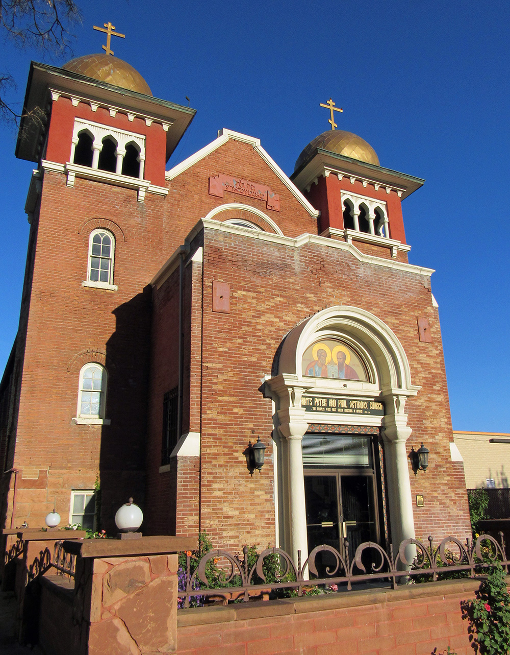 The former Congregation Montefiore Synagogue. The building was home to the Saints Peter and Paul Orthodox Christian Church when this photograph was taken.